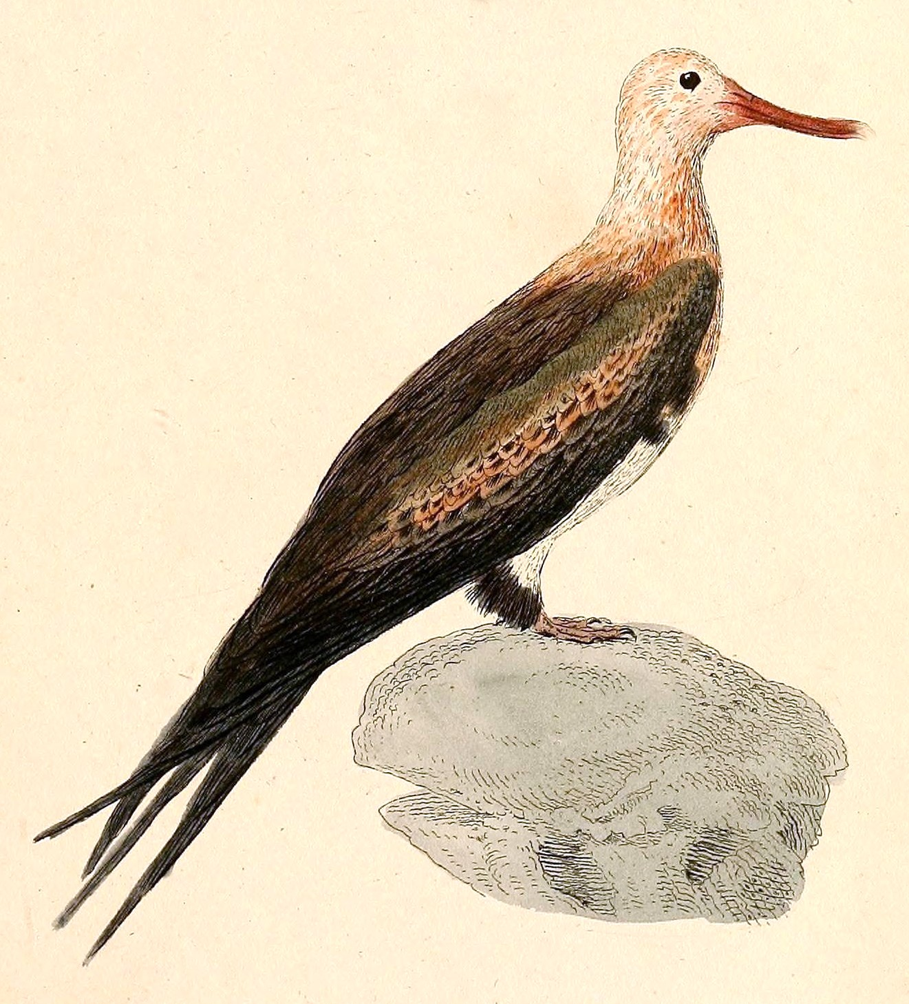 « Tachypetes leucocephalus » = Fregata aquila (Ascension Frigatebird) - young